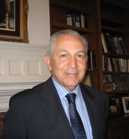 Ambassador Aziz Mekouar